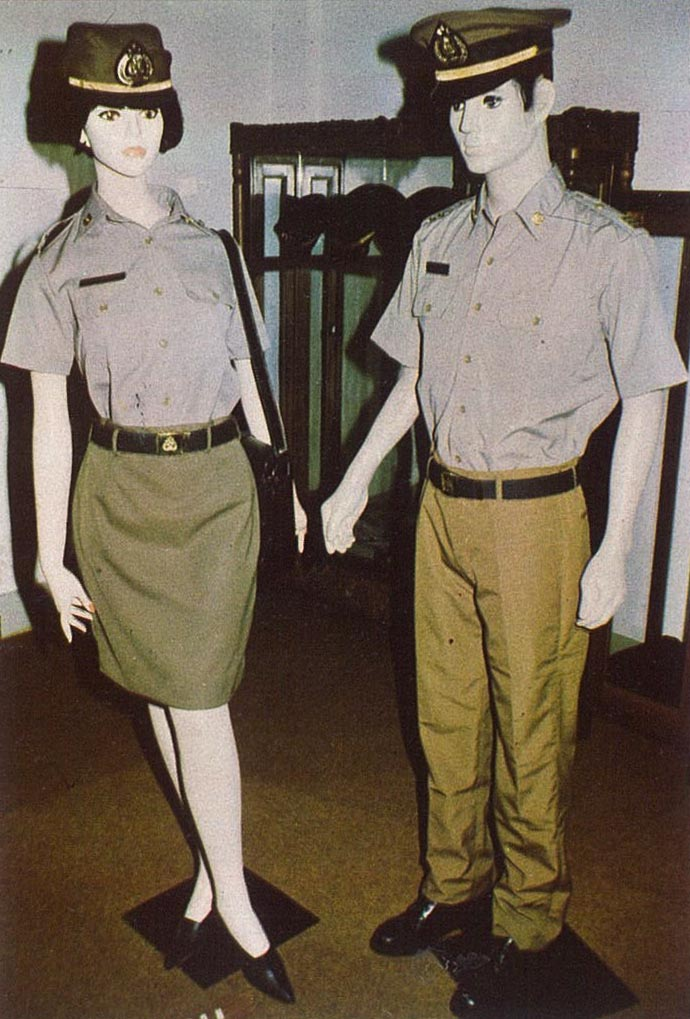 Daily police uniform